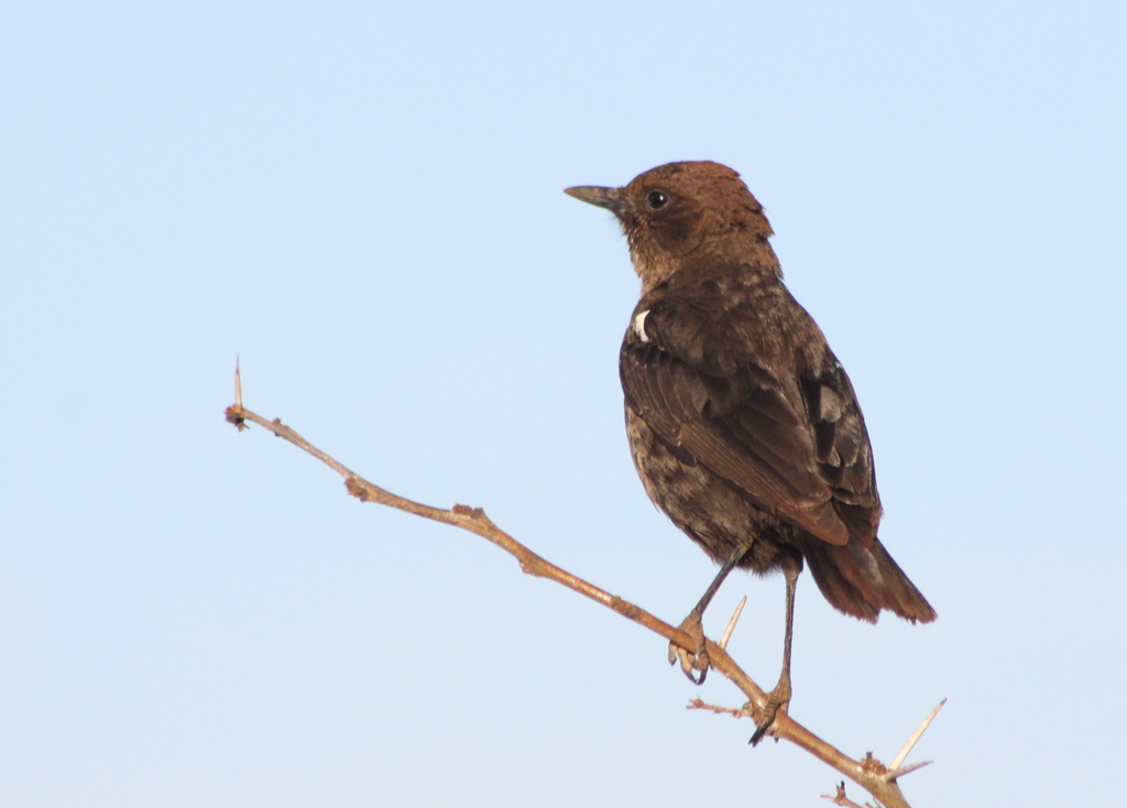 Southern Ant-eating Chat (Myrmecocichla formicivora) - male